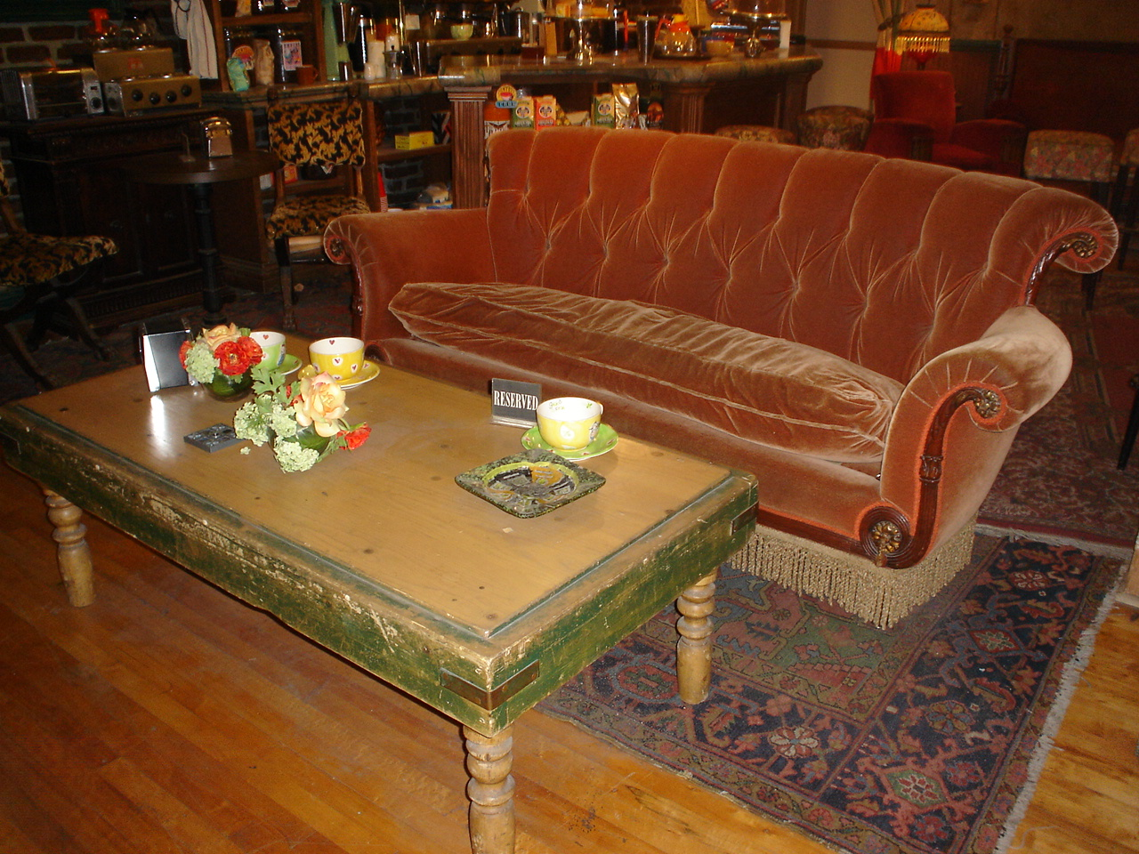 This image was originally uploaded on 9 December 2006 by User:Stuart1000 in English wikipedia as Image:DSC02176.JPG and licensed as PD-self. The following description was given: "The Central Perk set in its current state at the Warner Bros lot in Los Angeles."